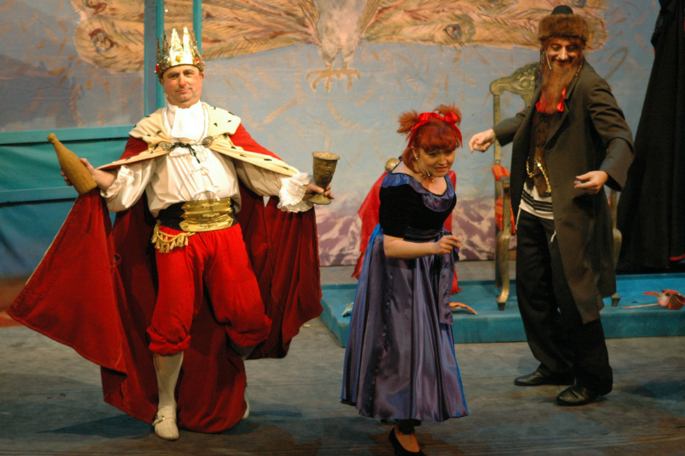 Purim performance at the Jewish Theatre in Warszawa, Poland. March 2009.